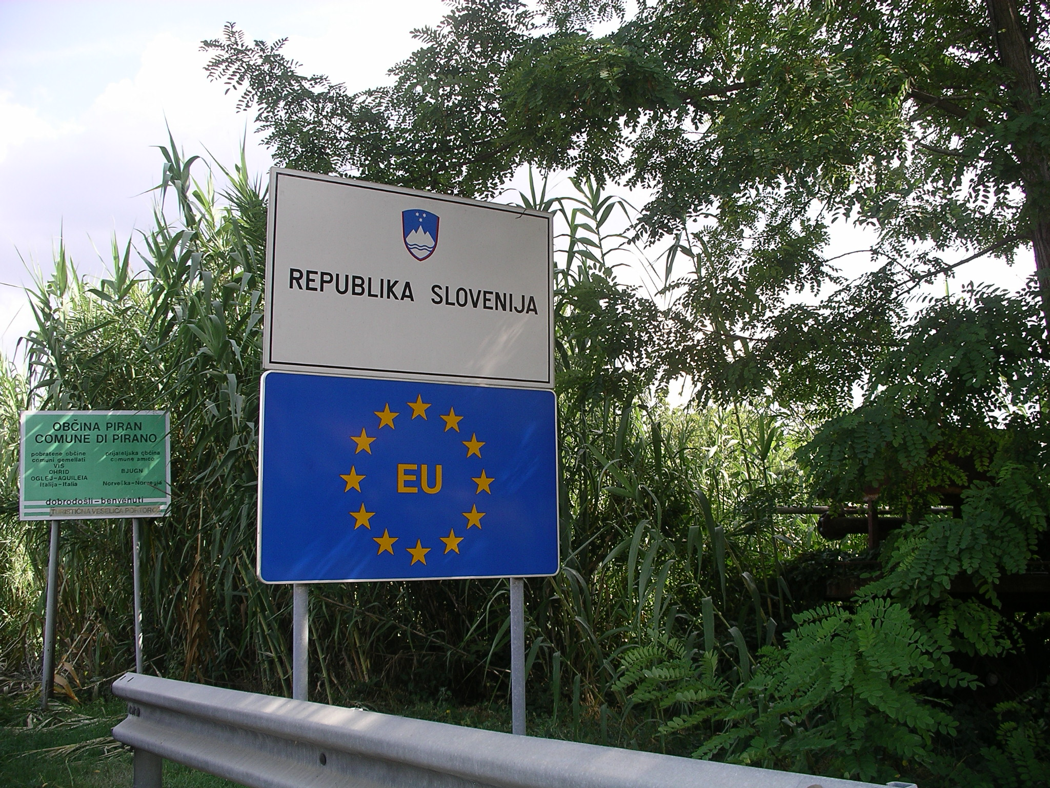 The Croatian-Slovenian border